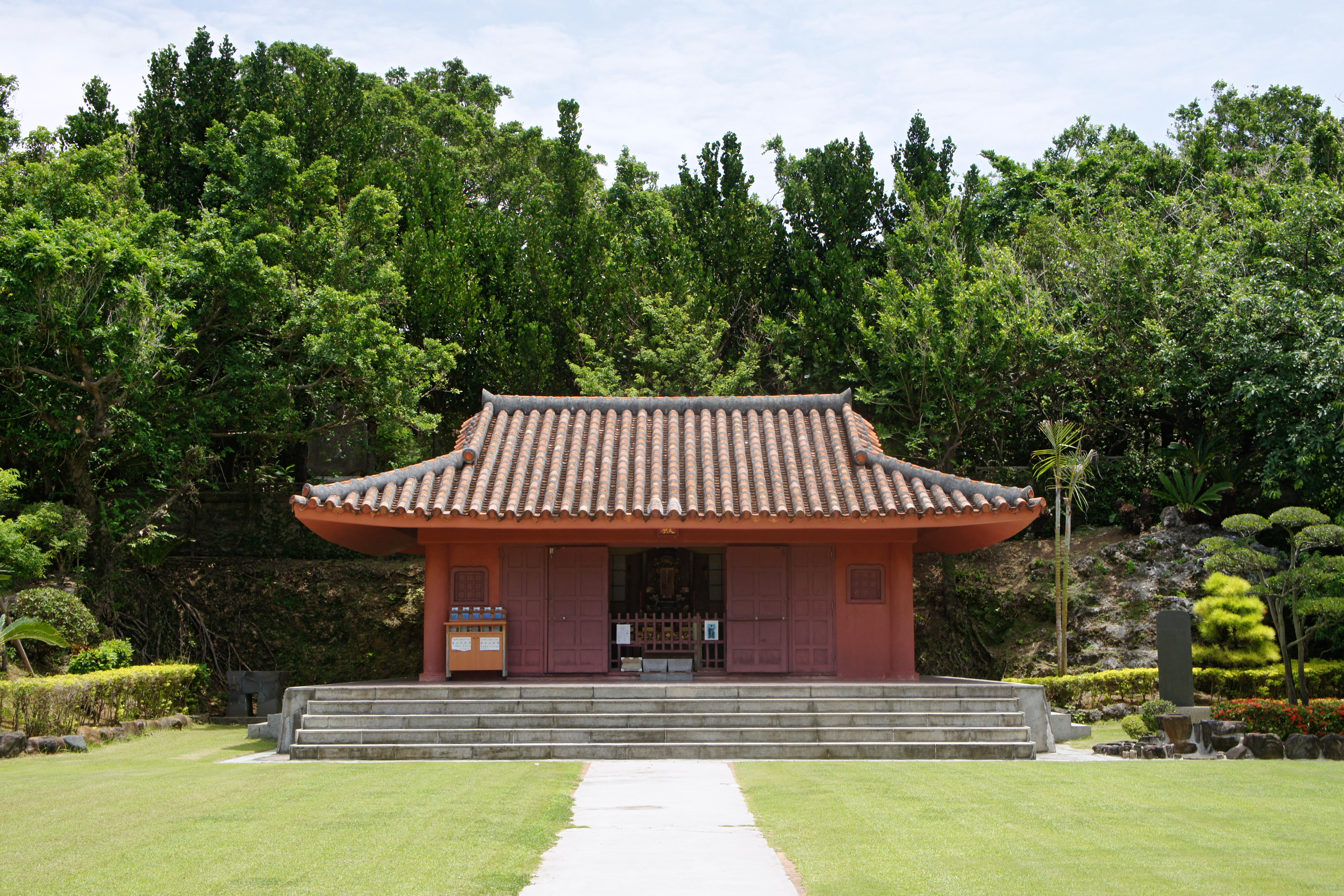 Shiseibyō on Tensonbyo-chi in Naha, Okinawa prefecture, Japan.